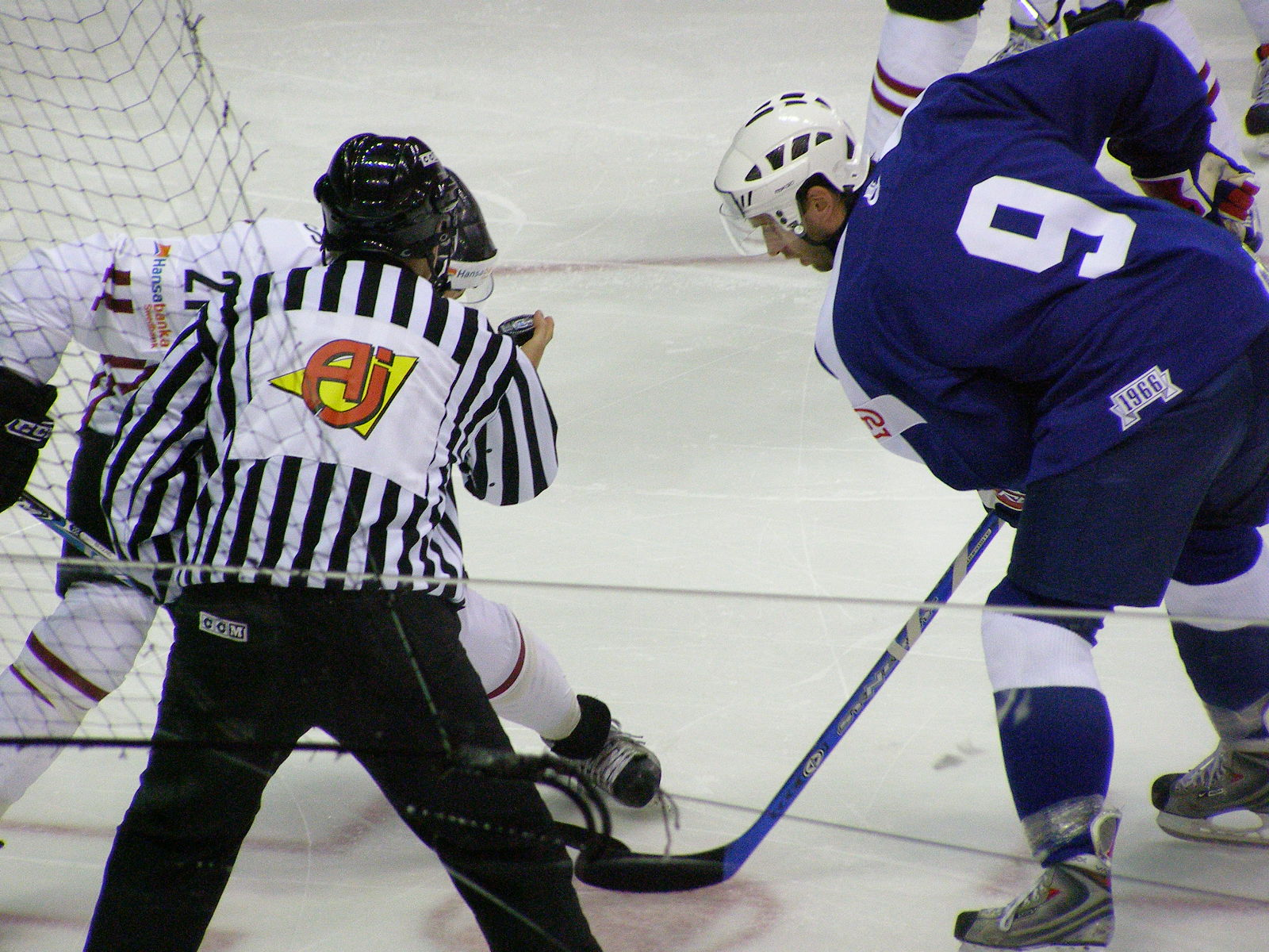 Latvia VS Slovenia (IIHF World Hockey Championship in Halifax NS, May 6 2008)